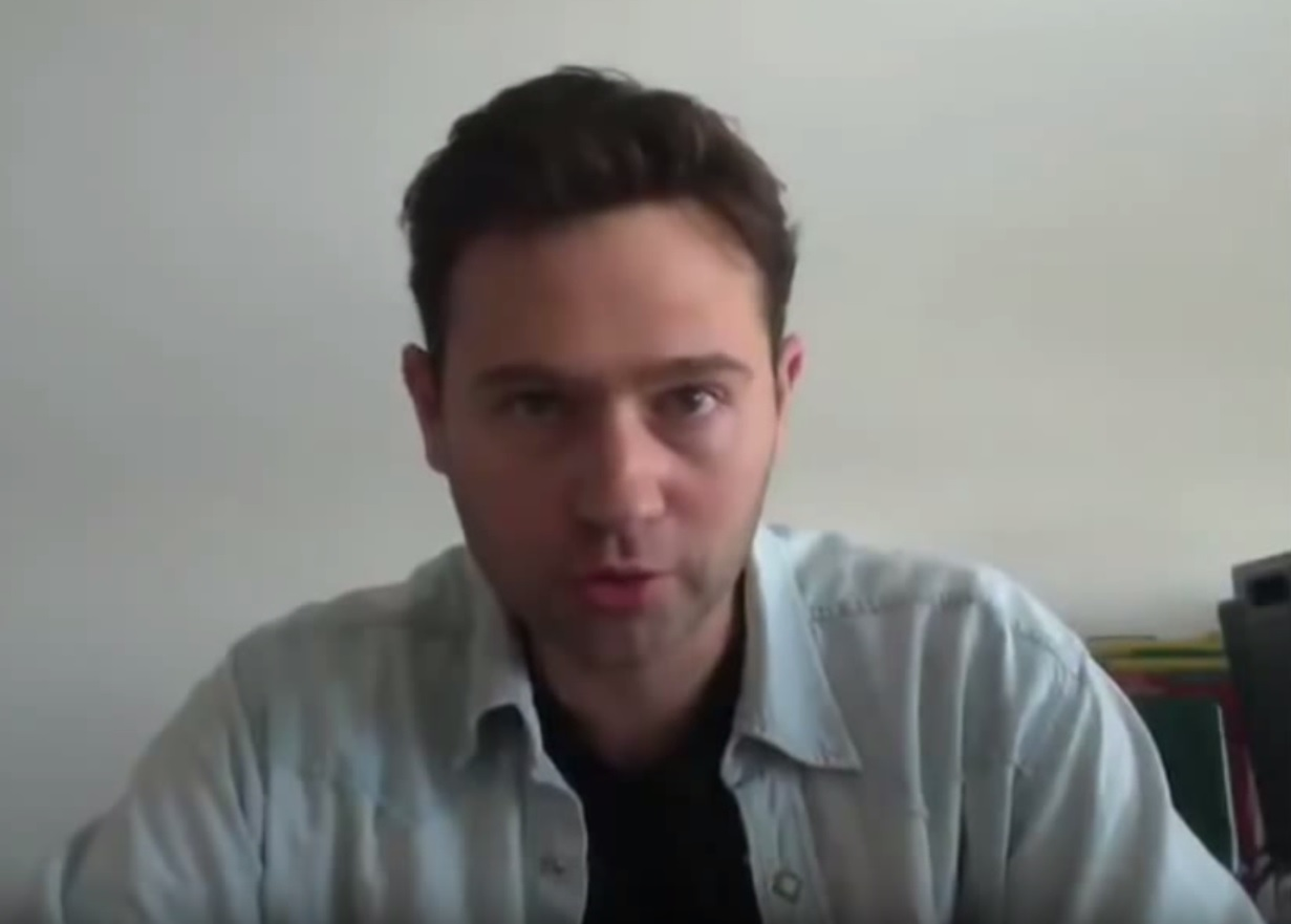 American author and journalist John Buffalo Mailer speaking with StartEvo.